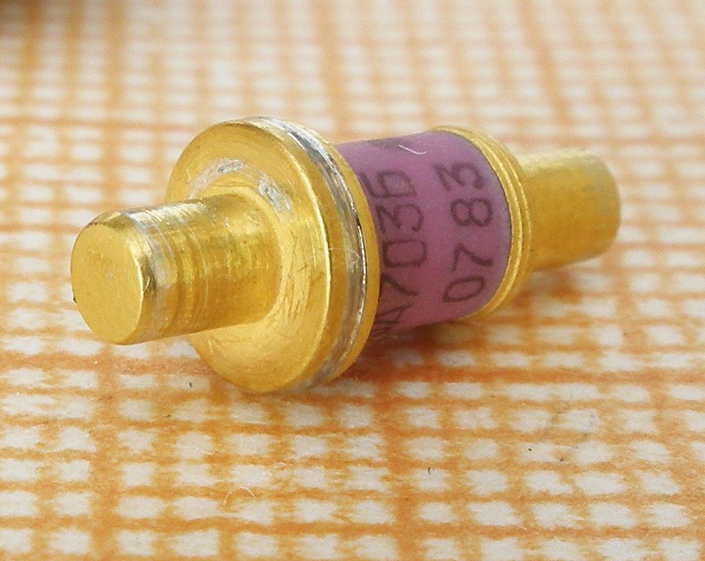 Russian Gunn diode 3А703Б